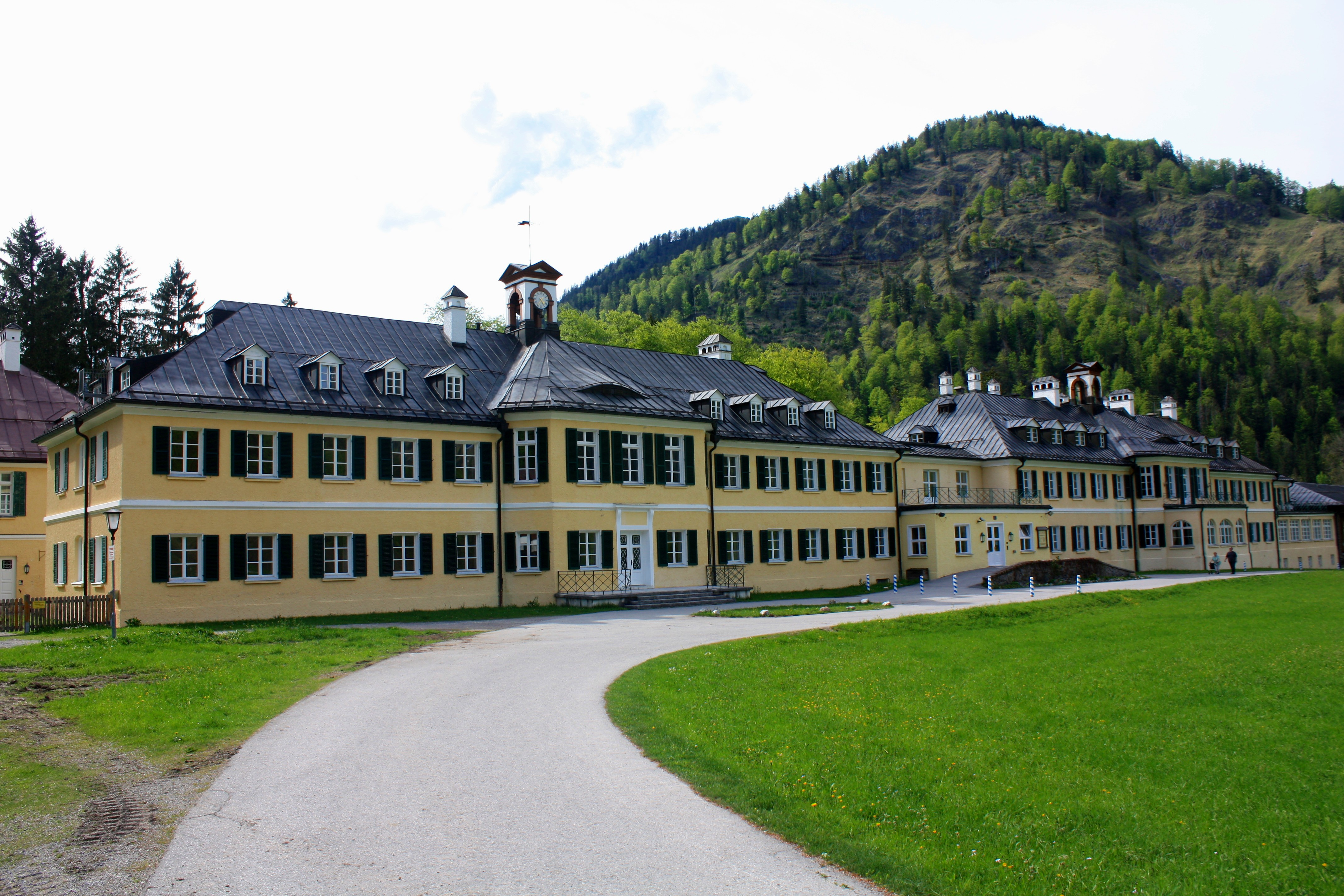 Conference centre of the Hanns Seidel Stiftung Wildbad Kreuth, Bavaria, Germany